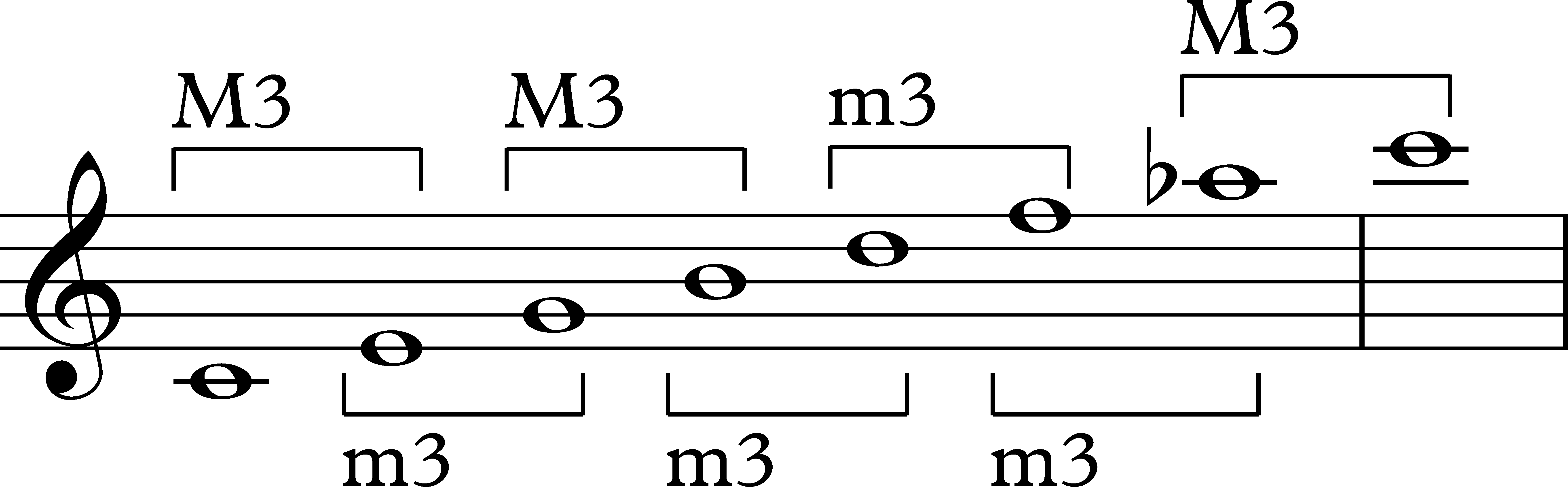 Harmonic major scale in thirds.